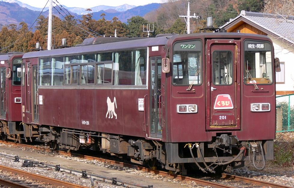 Watarase Keikoku Railway Watarase Keikoku Line Type Wa89-201 DMU at Omama Station, Gunma Prefecture, Japan